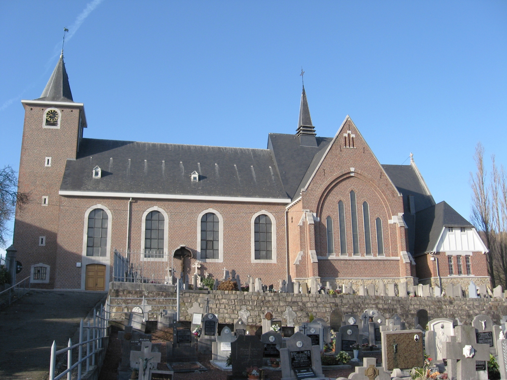 Church of Saint Hubert in Gemmenich, Plombières, Liège, Belgium